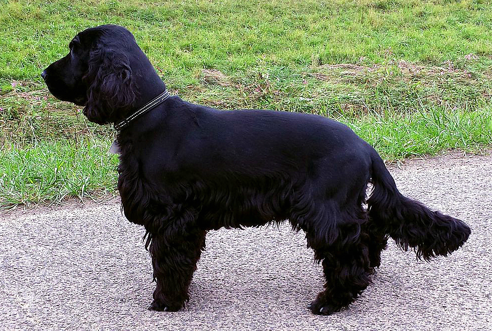 An English Cocker Spaniel male, George, 2 years old, bred by Tihany's.